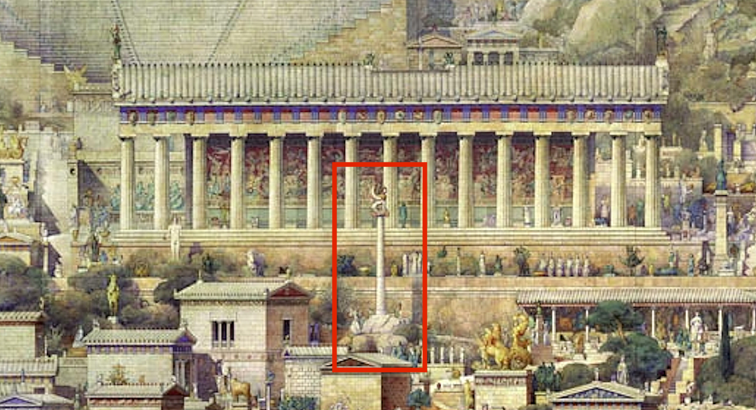 Sphinx of Naxos in front of the Temple of Apollo at Delphi